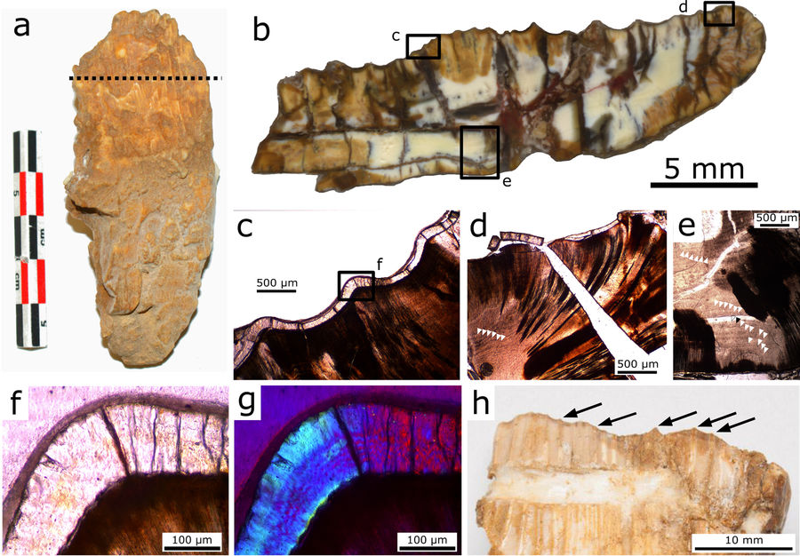 Figure 4 Matheronodon tooth histology. (a) Section plane in labiolingually compressed maxillary tooth MMS/VBN-93-34. (b) Incident light overview of a coronal section as indicated in (a,c) Transmitted light (plane polarized) microscopic view of boxed area in (b) showing enamel thickness variation on the ridges and grooves on the labial surface. (d,e) Transmitted light (plane polarized) microscopic views of boxed areas in (b) with details of the incremental lines in the dentine; Von Ebner lines are indicated by white arrows. (f,g) Transmitted light (plane polarized and cross polarized with lambda filter) microscopic view of boxed area in c, showing the enamel-dentine junction and wavy enamel Schmelzmuster. (h) Detail of the worn crown of MMS/VBN-09-149a (cf. Fig. 3a) showing an occlusal surface with a serrated (black arrows) slicing edge.